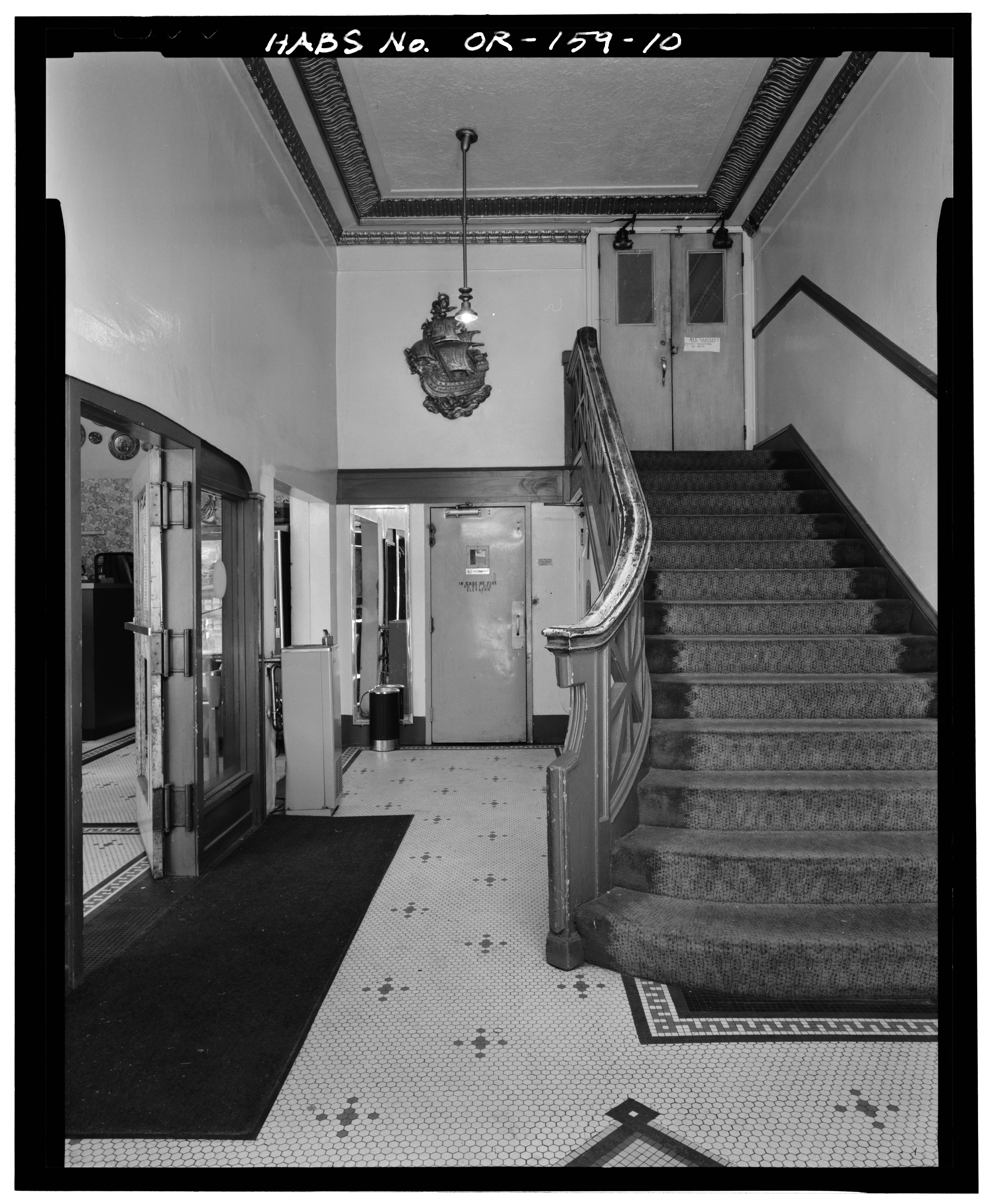 OR-159-10 "Lobby foyer and stairs viewed from front door. Partial tile pattern in foreground is seen in greater detail in photo No. OR-159-16. 90mm." Photo by John Stamets, HABS. This file comes from the Historic American Buildings Survey (HABS), Historic American Engineering Record (HAER) or Historic American Landscapes Survey (HALS). These are programs of the National Park Service established for the purpose of documenting historic places. Records consist of measured drawings, archival photographs, and written reports. This tag does not indicate the copyright status of the attached work. A normal copyright tag is still required. See Commons:Licensing for more information. This work is in the public domain in the United States because it is a work prepared by an officer or employee of the United States Government as part of that person’s official duties under the terms of Title 17, Chapter 1, Section 105 of the US Code. Note: This only applies to original works of the Federal Government and not to the work of any individual U.S. state, territory, commonwealth, county, municipality, or any other subdivision. This template also does not apply to postage stamp designs published by the United States Postal Service since 1978. (See § 313.6(C)(1) of Compendium of U.S. Copyright Office Practices). It also does not apply to certain US coins; see The US Mint Terms of Use. This file has been identified as being free of known restrictions under copyright law, including all related and neighboring rights.